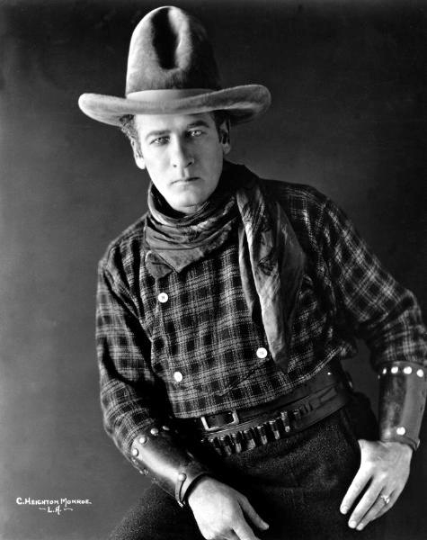 Photograph of Tom Santschi